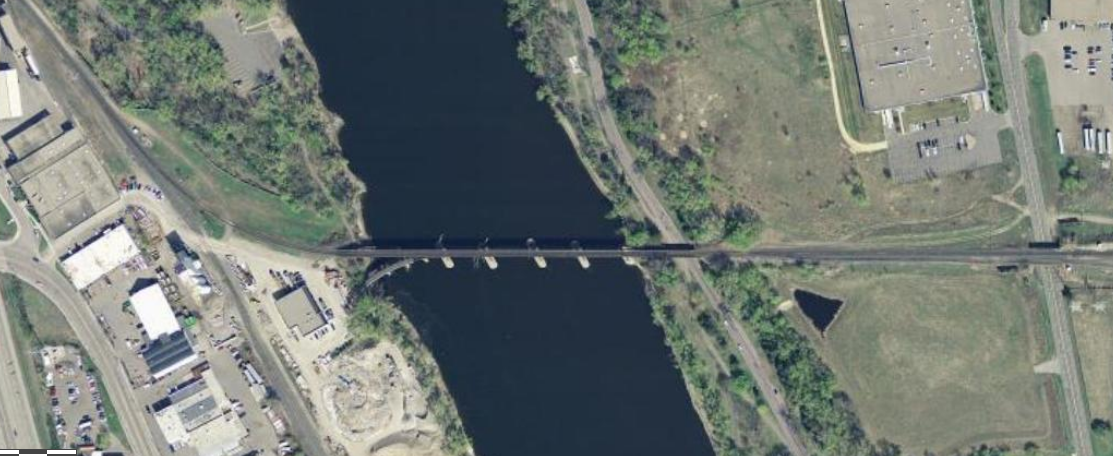 Satellite view of the bridge.